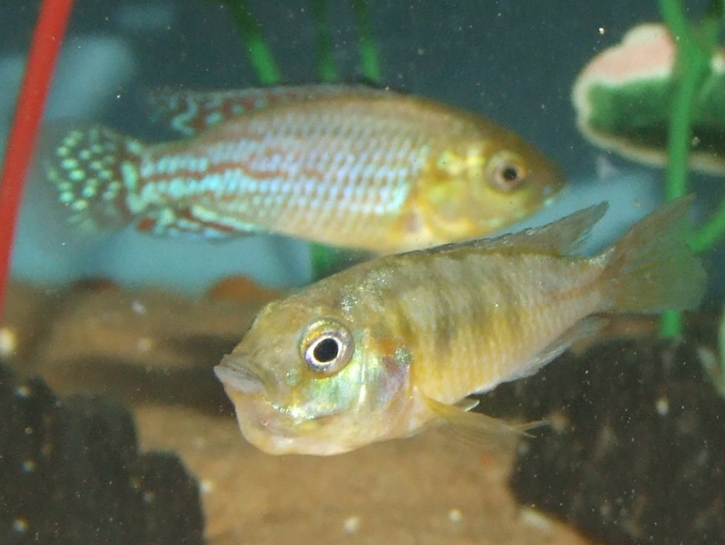 Female Pseuducrenliabrus nicholsi, mouthbrooding eggs.